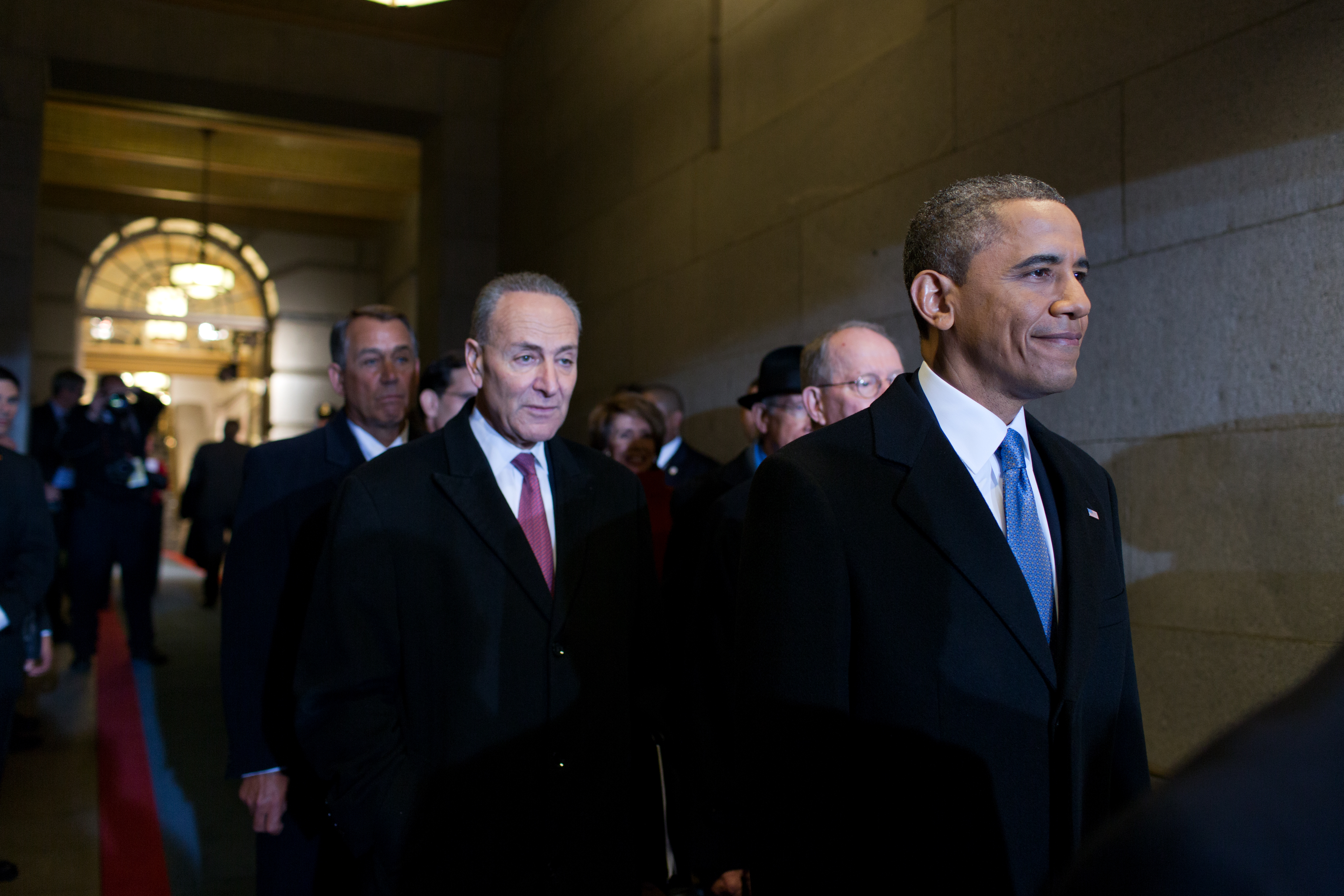 United States President Barack Obama waits before moving to the West Front of the U.S. Capitol prior to the inaugural swearing-in ceremony in Washington, D.C. on 21 January 2013. Waiting with the President are, from left: House Speaker John Boehner, Republican Party-Ohio; House Majority Leader Eric Cantor, Republican Party-Virginia; Senator Chuck Schumer, Democratic Party-New York; Leader Nancy Pelosi, Democratic Party-California; Senate Majority Leader, Harry Reid, Democratic Party-Nevada; and Senator Lamar Alexander, Republican Party-Tennessee.